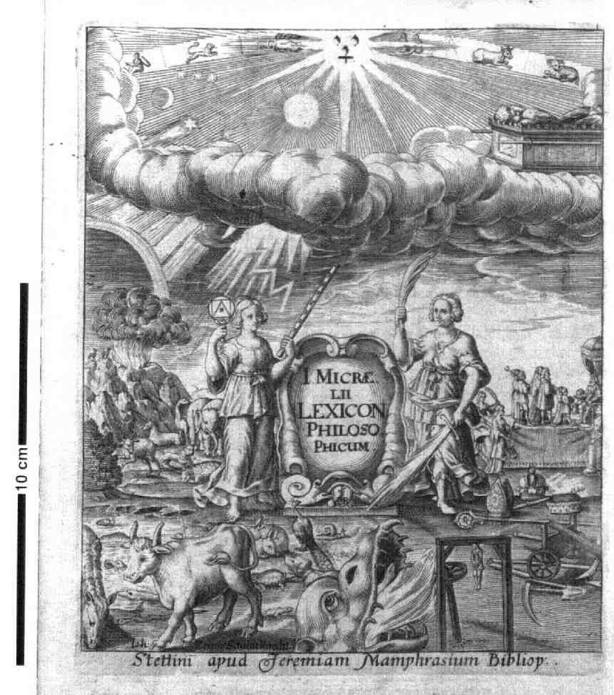 Page 2 of Joh. Micraelii Lexicon Philosophicum Terminorum Philosophis Usitatorum : Ordine Alphabetico Sic Digestorum, Ut Inde Facile Liceat Cognosse, Praesertim Si Tam Latinus, Quam Graecus Index Praemissus Non Negligatur ..., Editio Secunda ab ipso Authore Correcta & Aucta, cum novis novorum Terminorum & Vocabulorum Indicibus. (1662)